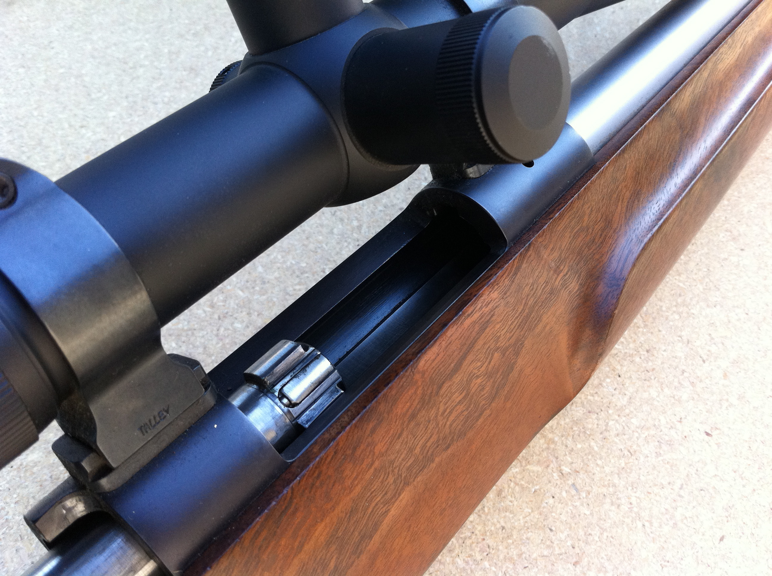 Close up of single-shot bolt-action Cooper model 22 rifle.